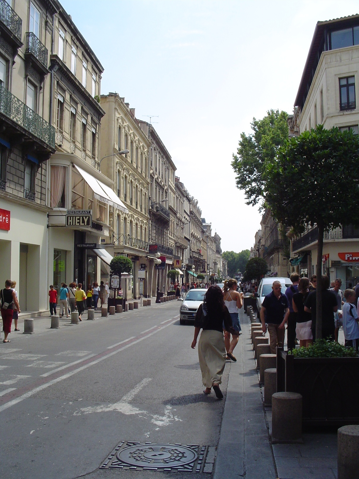 A shoppingstreet in Avignon, crossing the Hôtel de Ville at the end. Actually, Avignon main street (Rue de la République).